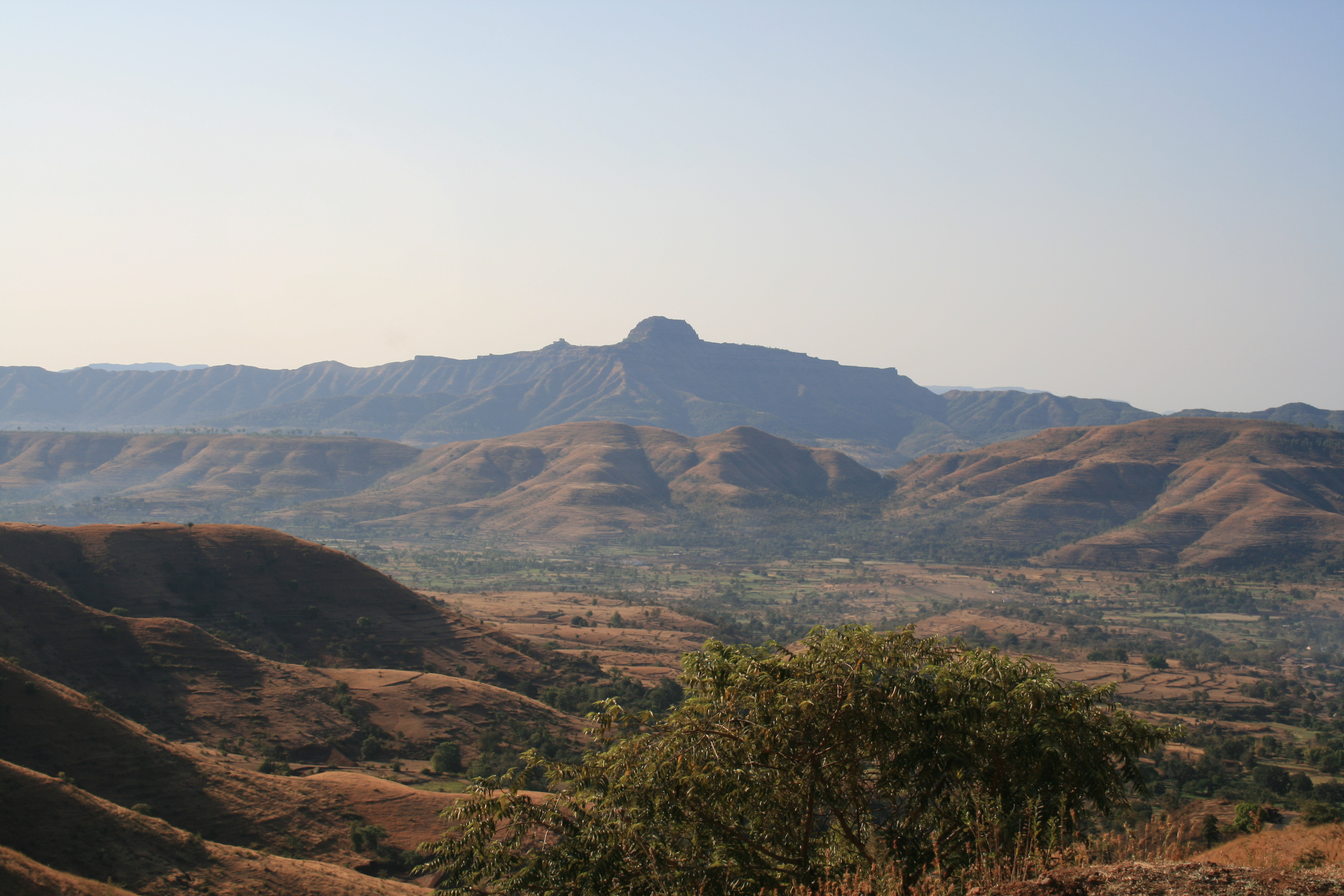 Photo of Rajgad Fort taken from Pabe Ghat.